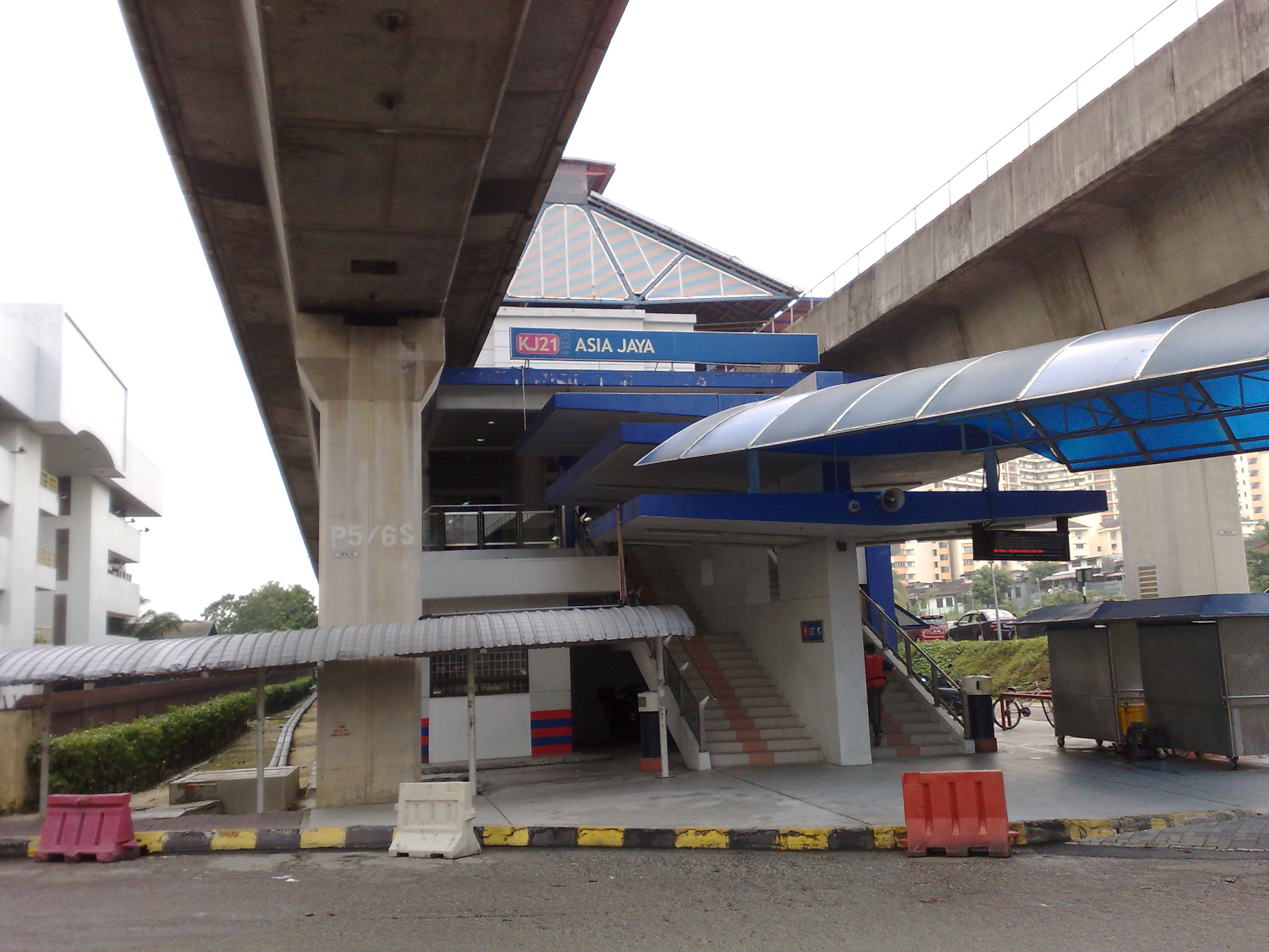 Asia Jaya LRT station